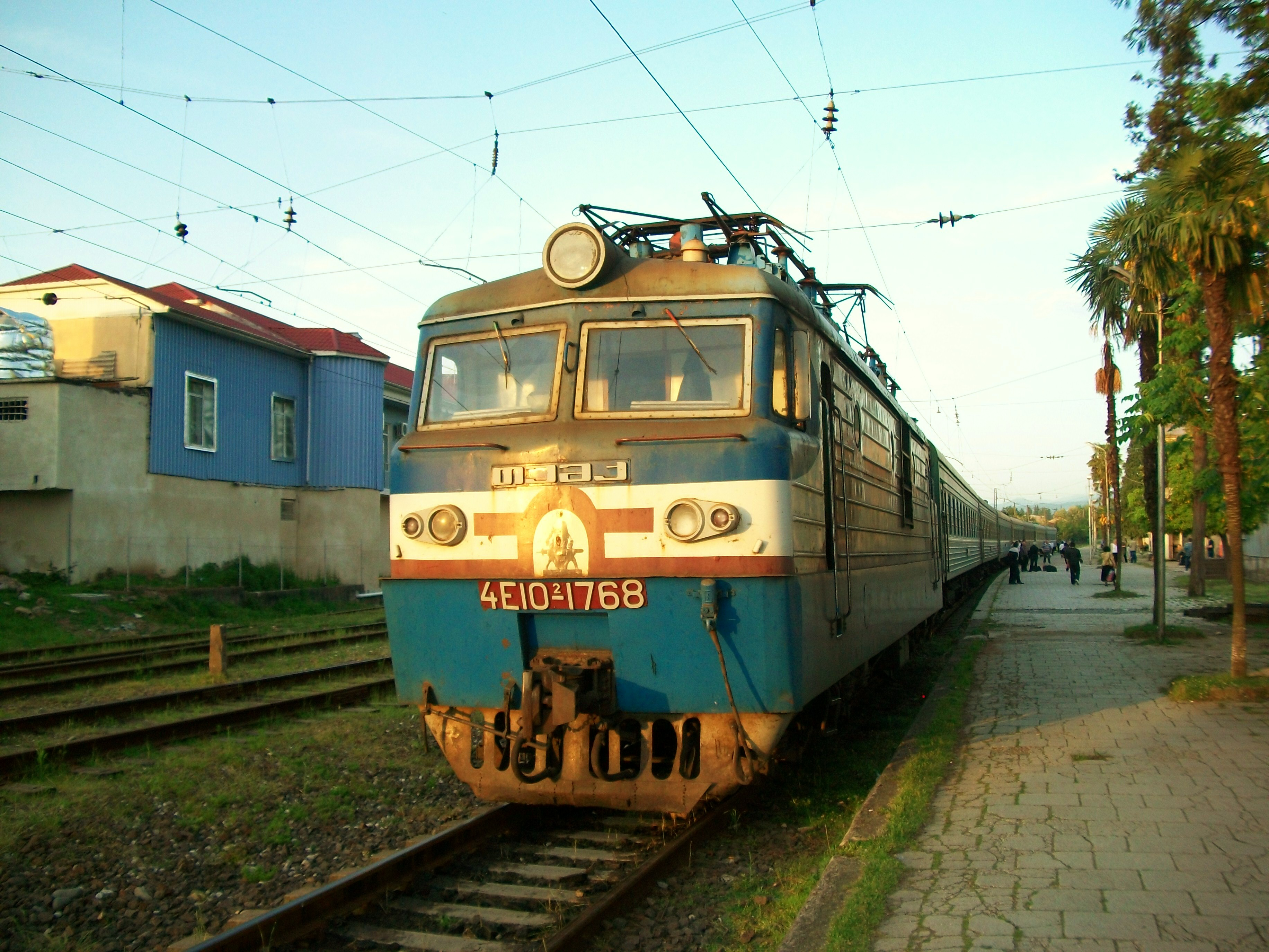 4E10-1768 electric locomotive built by TEVZ/JSC "Elmavalmshenebeli" at Ozurgeti train station